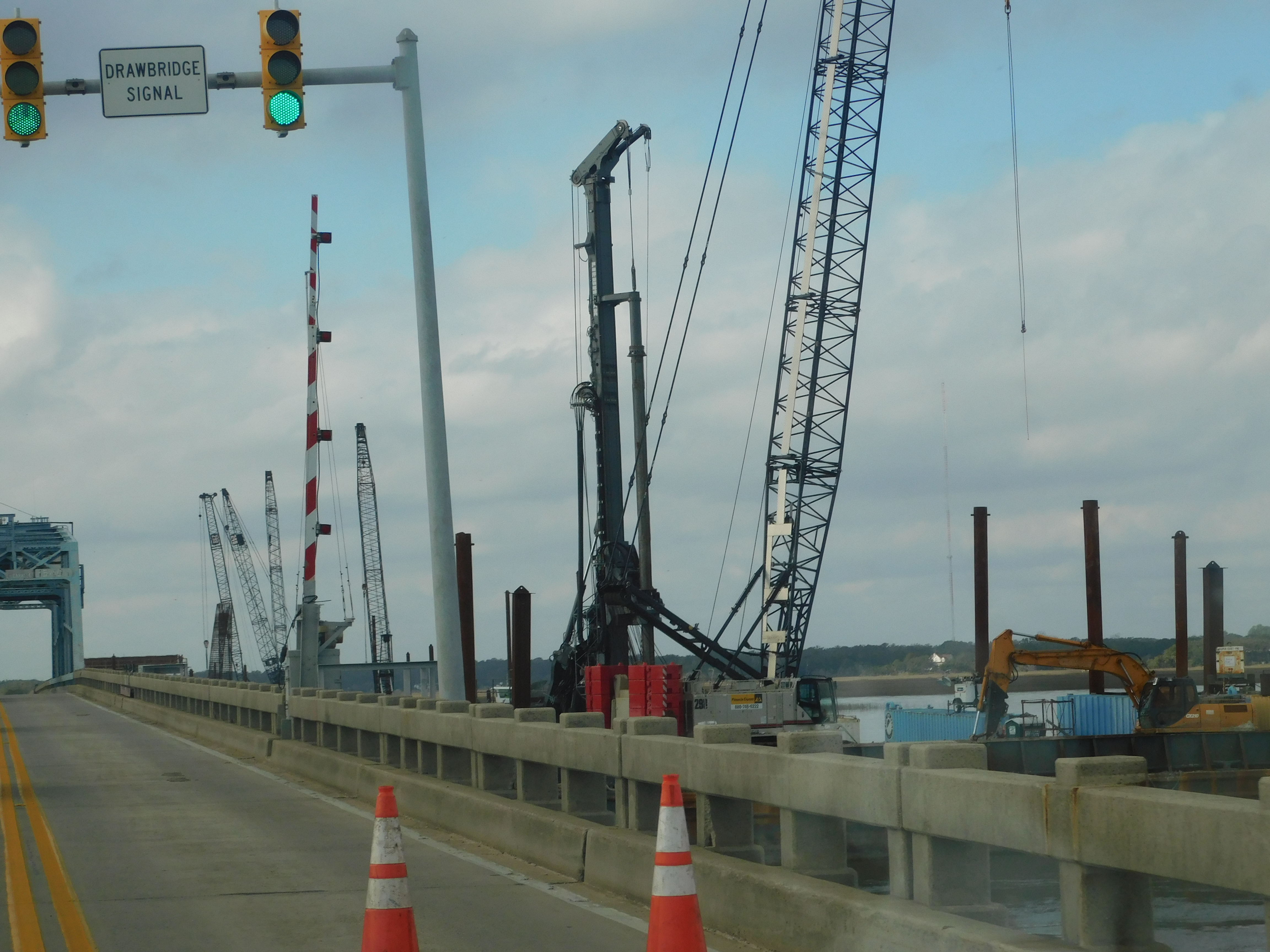 South Carolina Department of Transportation (SCDOT) is constructing a new high-level fixed-span bridge and is removing the existing swing-span bridge along US 21. Construction started in Spring 2019.